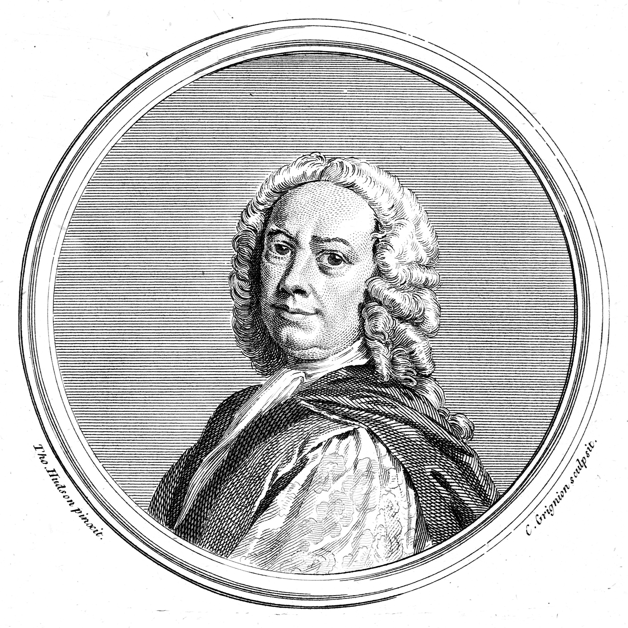 Depicted person: Johann Christoph Pepusch